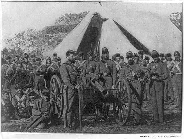 The famous New York Seventh, just after reaching Washington in April 1861. Group of soldiers posed with cannon in foregrd. and tent in backgrd.